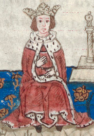 A sixteenth-century depiction of the parliament of Edward I, King of England, as depicted by the Wriothesley Garter Book. The seated figure is Alexander III, King of Scotland.